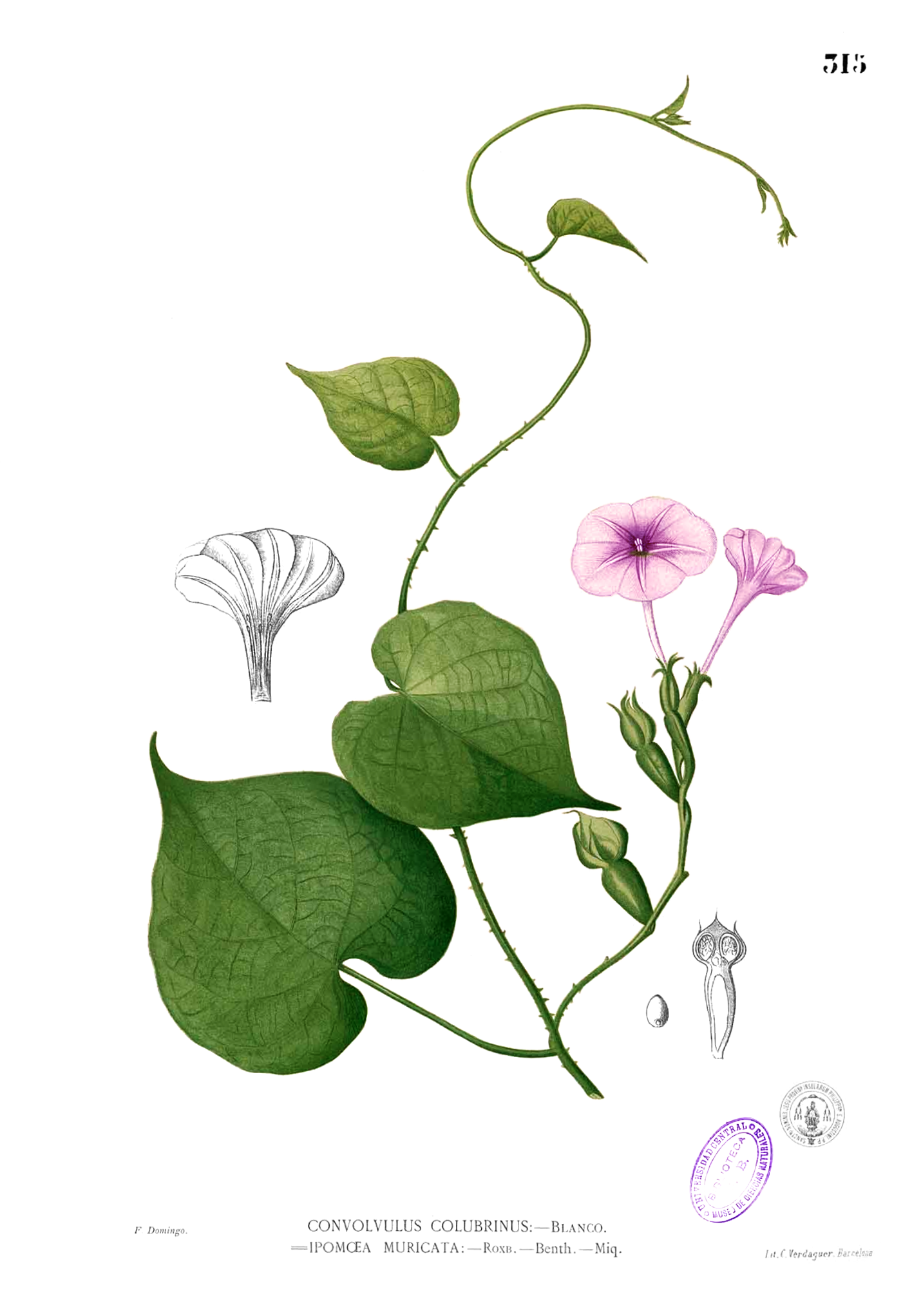 Plate from book